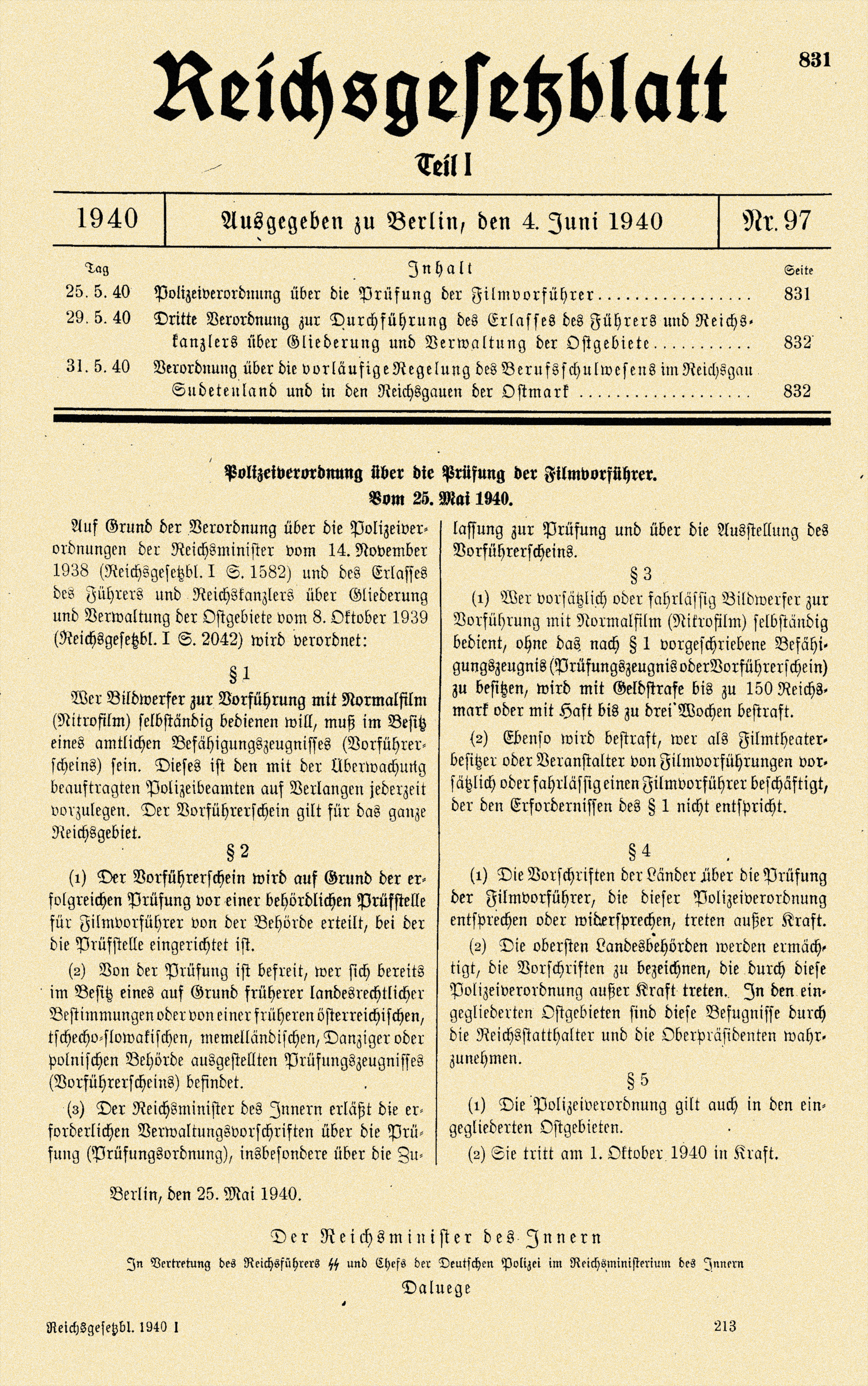 Scan from the Imperial Law Gazette of Germany, 1940, part 1